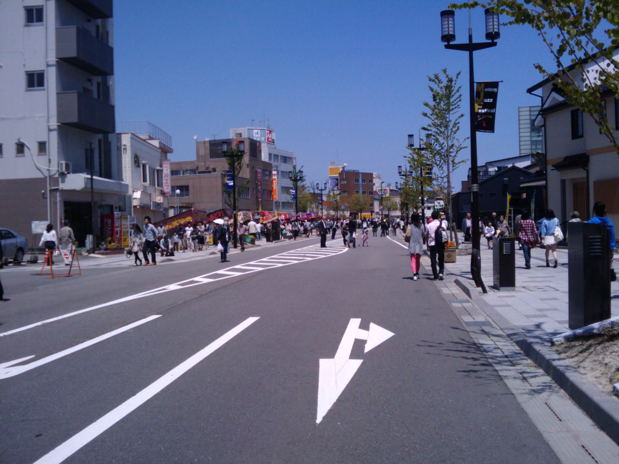 Ishikawa Prefectural Road Route 132 (Nanao, Ishikawa, Japan)